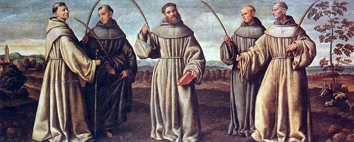 The Martyrs of Marrakesch, Franciscan friars